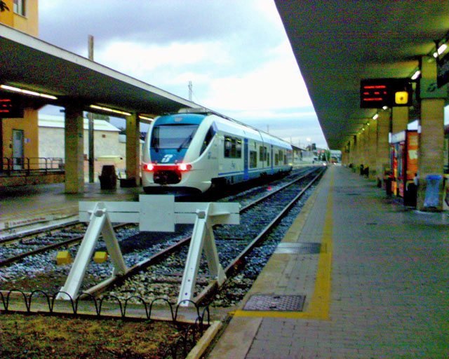 A Minuetto diesel train (ALn 501/502) inside the station of Cagliari, Sardinia, Italy